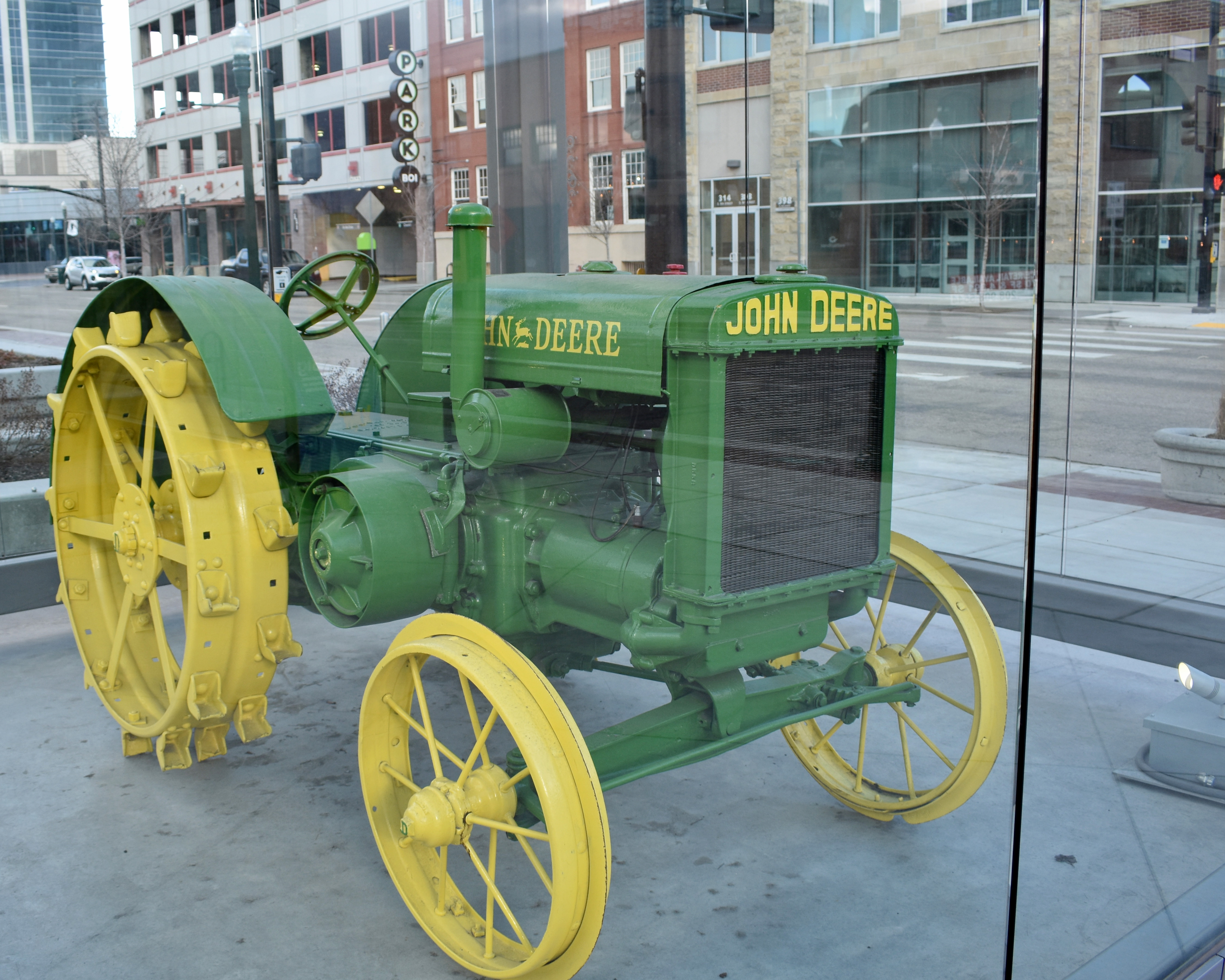 This John Deere 15-27 tractor, also known as the Model D and as the Spoker D, was built in Waterloo, Iowa, in 1923 or 1924 and is part of the J.R. Simplot collection in Boise, Idaho.